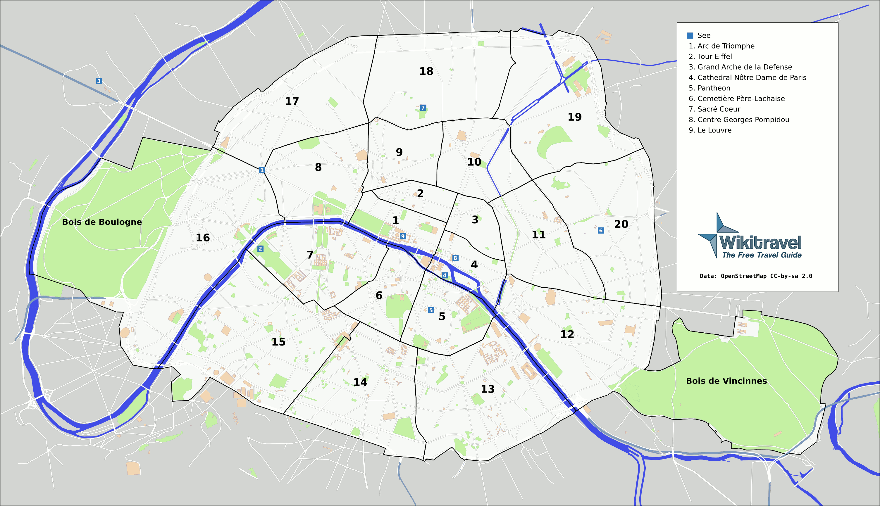 Map of the arrondissements of Paris.